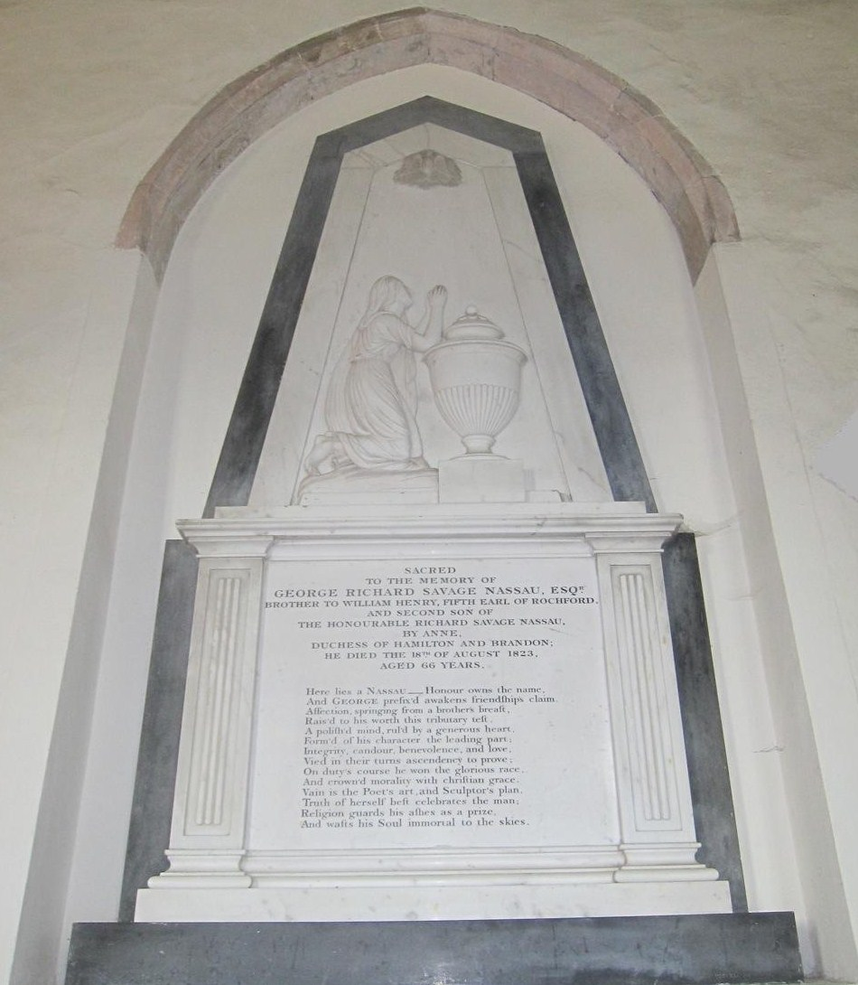 Memorial to George Richard Savage Nassau (1756–1823), in Church of All Saints, Easton, Suffolk, Easton. The sculptor was William Pistell (Gunnis)